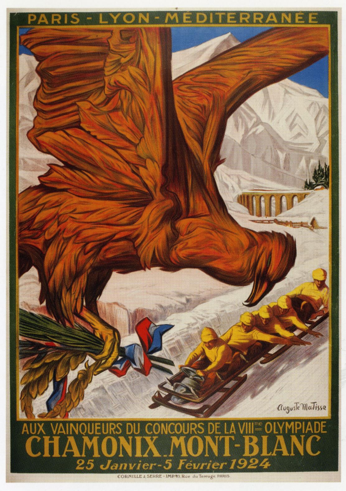 Poster of the Chamonix 1924 Winter Olympic Games, produced in about 5000 copies.